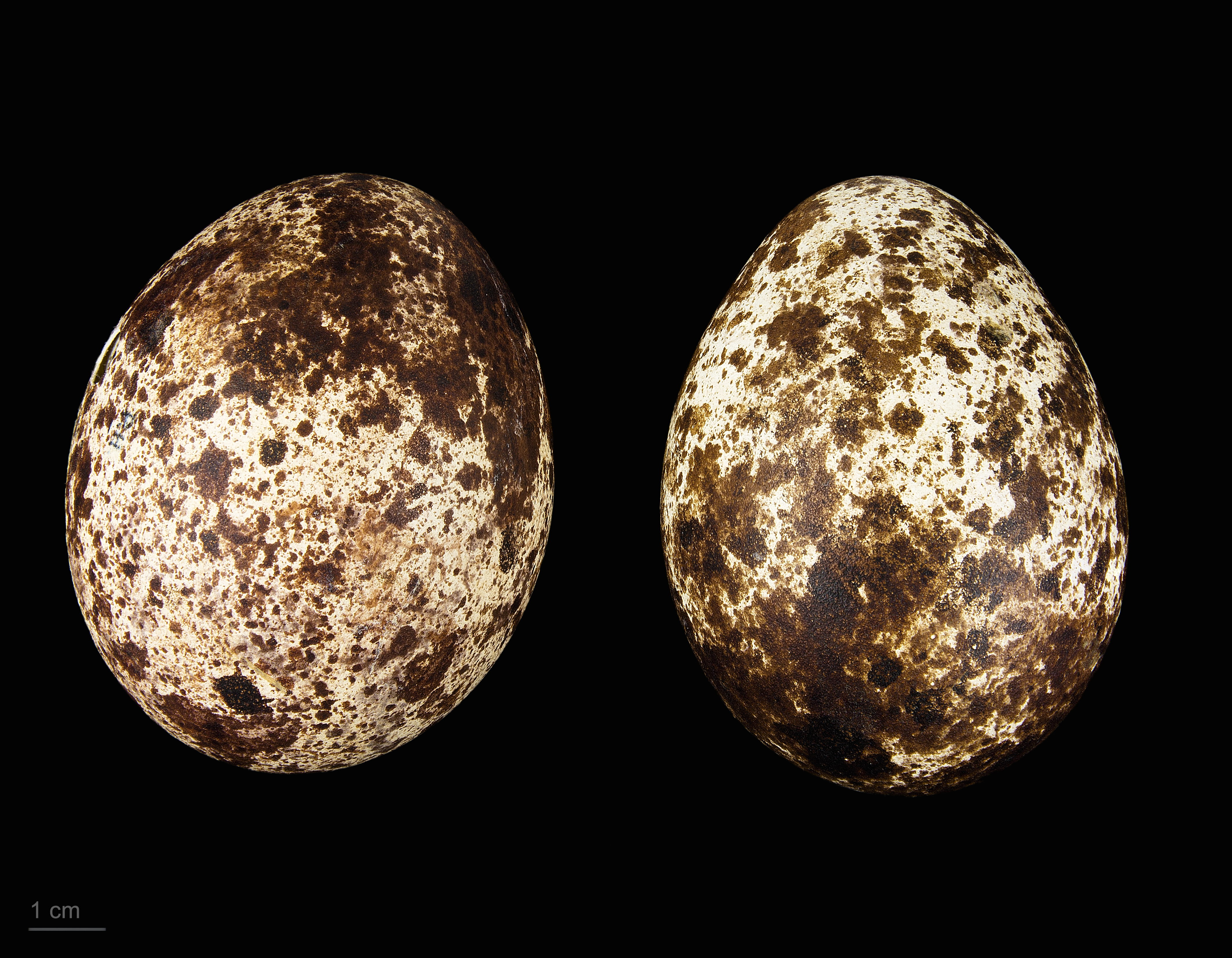 Eggs of Osprey Two specimens of the same spawn ; collection of Jacques Perrin de Brichambaut.